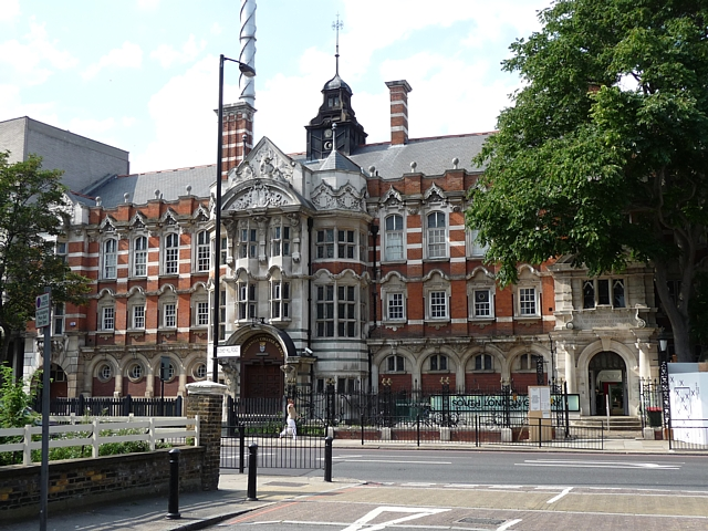 Passmore Edwards South London Art Gallery, Peckham Road A splendidly ebullient Baroque facade, with hardly an unadorned inch anywhere. By Maurice Adams, 1896-98. There are caryatids in the projecting porch, round windows, square windows and segmental windows, curvy pediments, striped brick. Grade II listed. Too many buildings like this might give one a headache, but in small doses they are a delight.